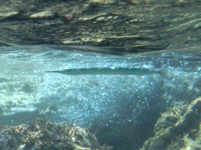 Belone belone photographed in Crete, Greece.